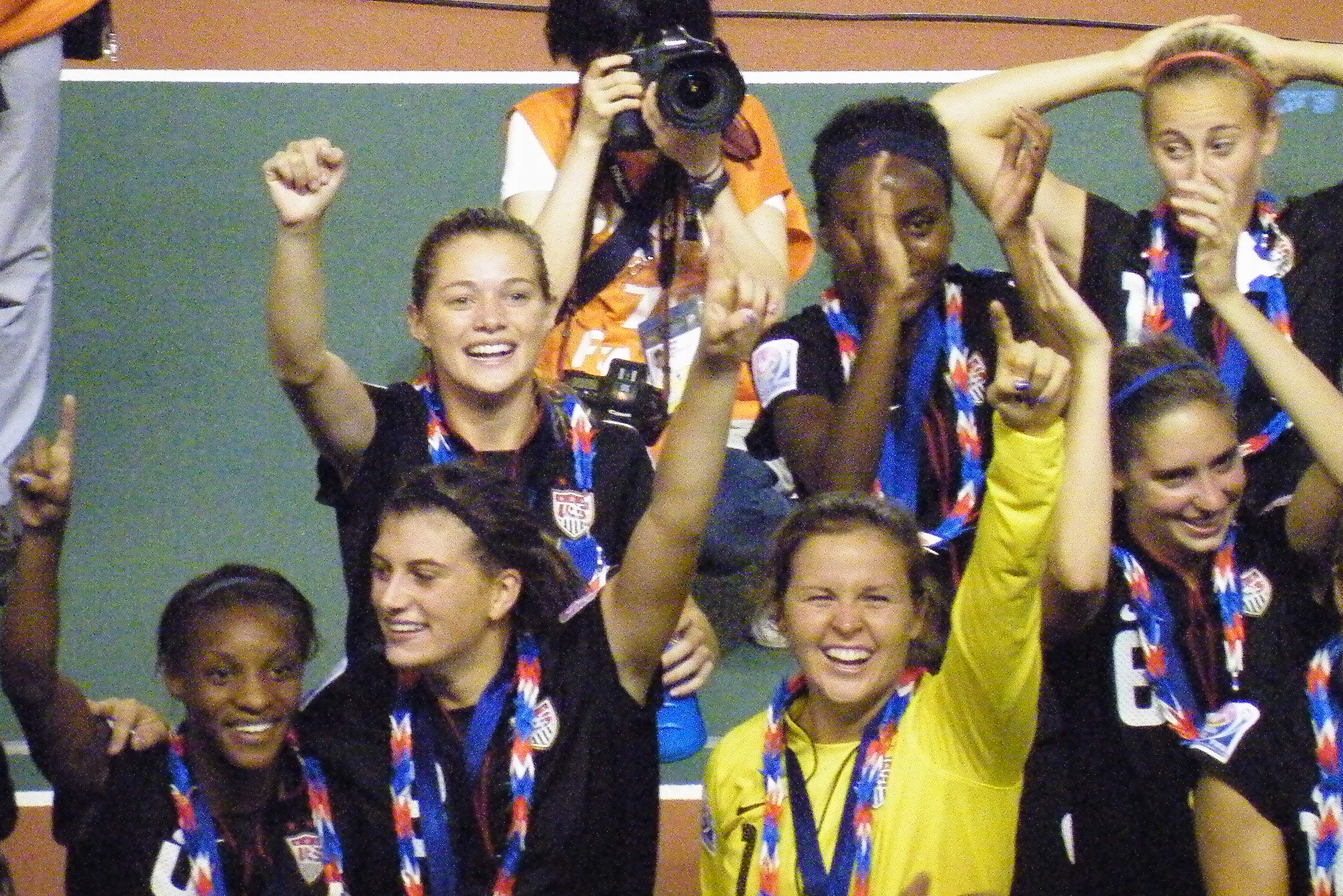 FIFA U-20 Women's World Cup 2012 Awards Ceremony. From left to right: 4-Crystal Dunn, 3-Cari Roccaro, 7-Kealia Ohai, 1-Bryane Heaberlin (GK), 9-Chioma Ubogagu, 6-Morgan Brian, 17-Taylor Schram, 16-Sarah Killion